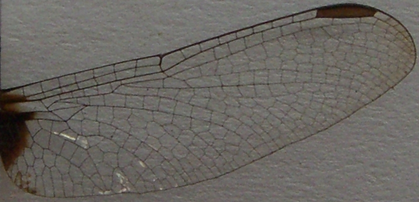 Description: Detail of the hindwing of Erythrodiplax abjecta, (female)